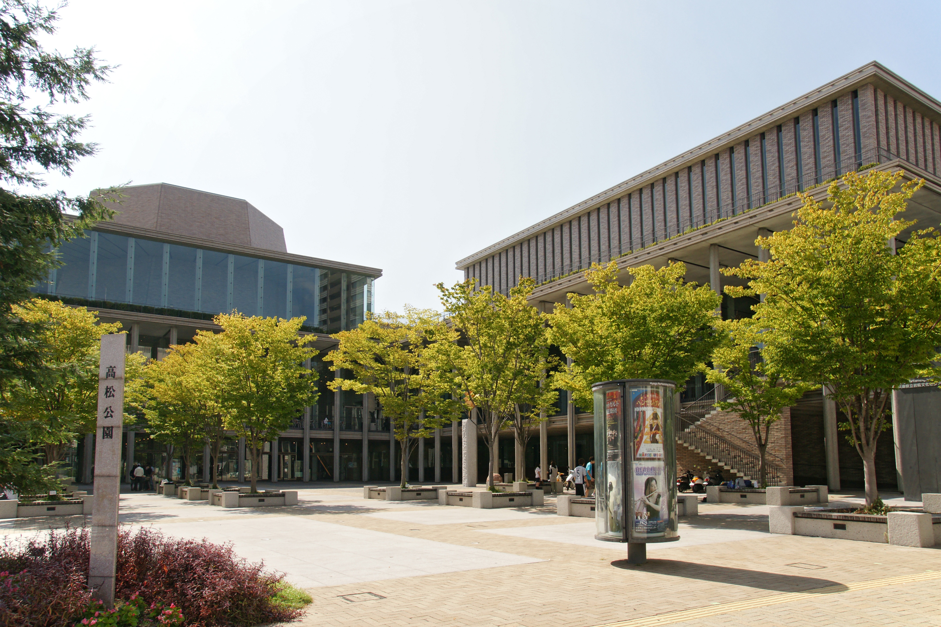 Hyogo Performing Arts Center on Takamatsu Park in Nishinomiya, Hyogo prefecture, Japan